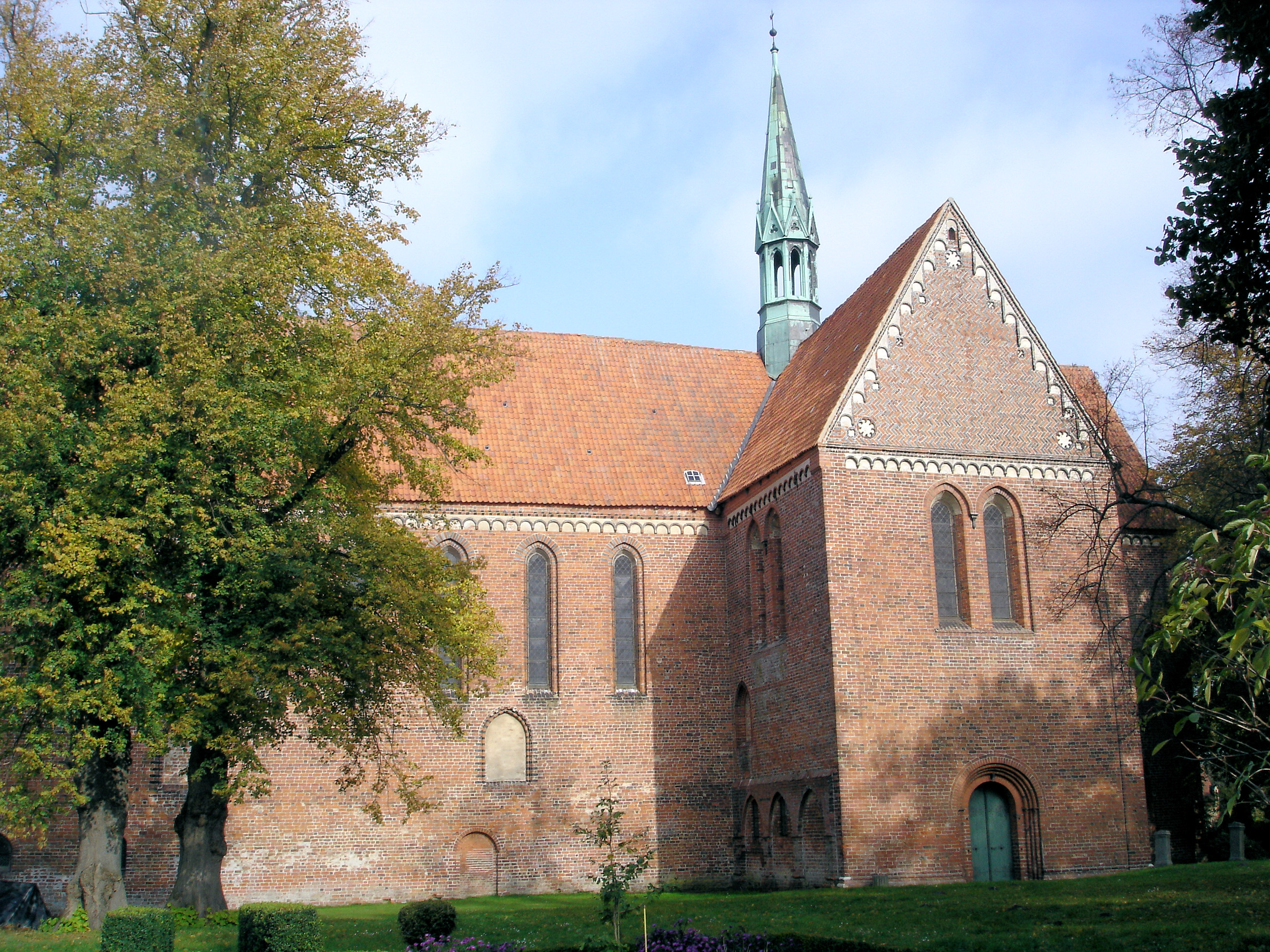 Church in Neukloster, Mecklenburg, Germany, C13